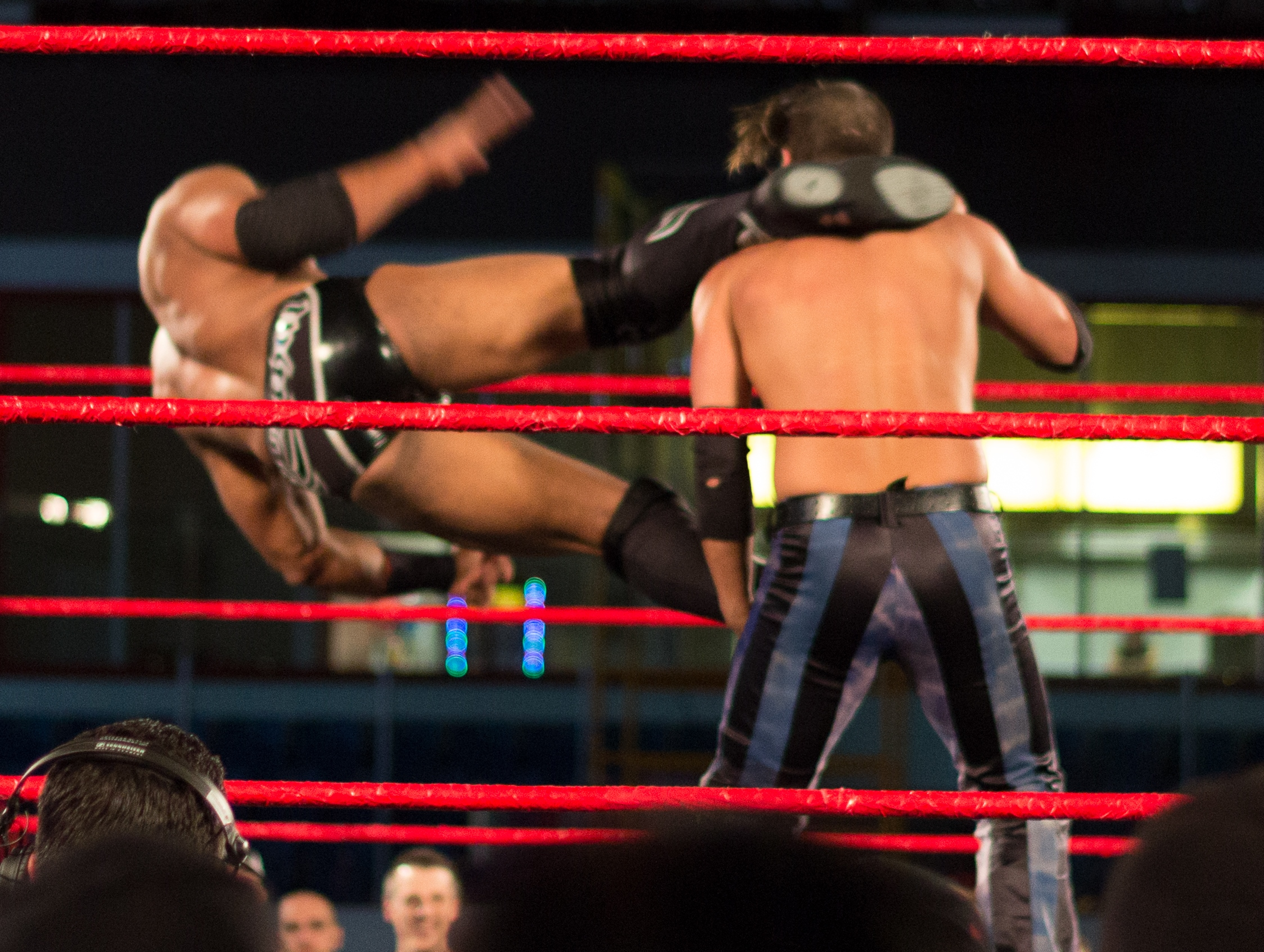 Jay Lethal (left) hitting an enzuigiri against Jimmy Jacobs at the Ring of Honor tapings held at the Ted Reeve Arena in Toronto.